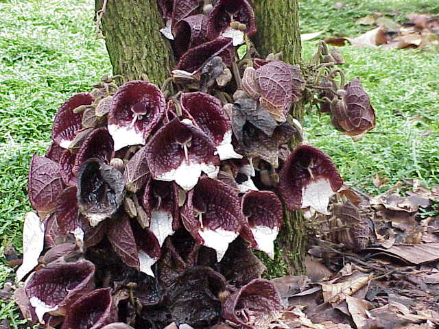 Species: Aristolochoia arborea Family: Aristolochiaceae Image No. 1